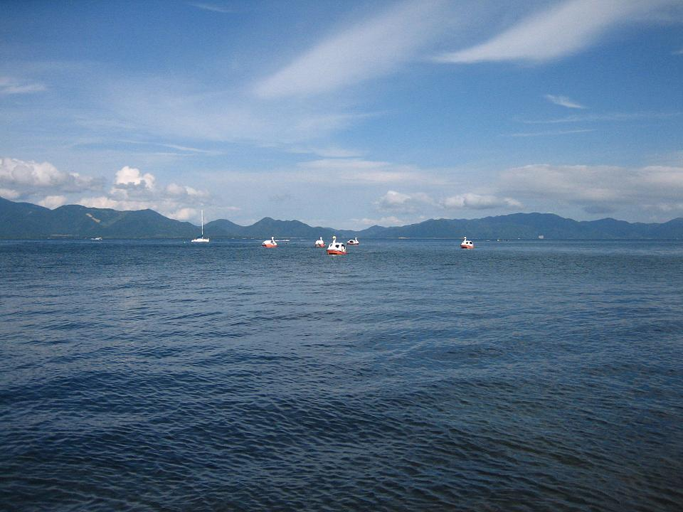 A picture of Lake Inawashiro in Fukushima Prefecture, Japan. Picture was taken with a Canon Power Shot SD450 Digital Elph camera and modified using a Paint Shop program on a laptop computer.